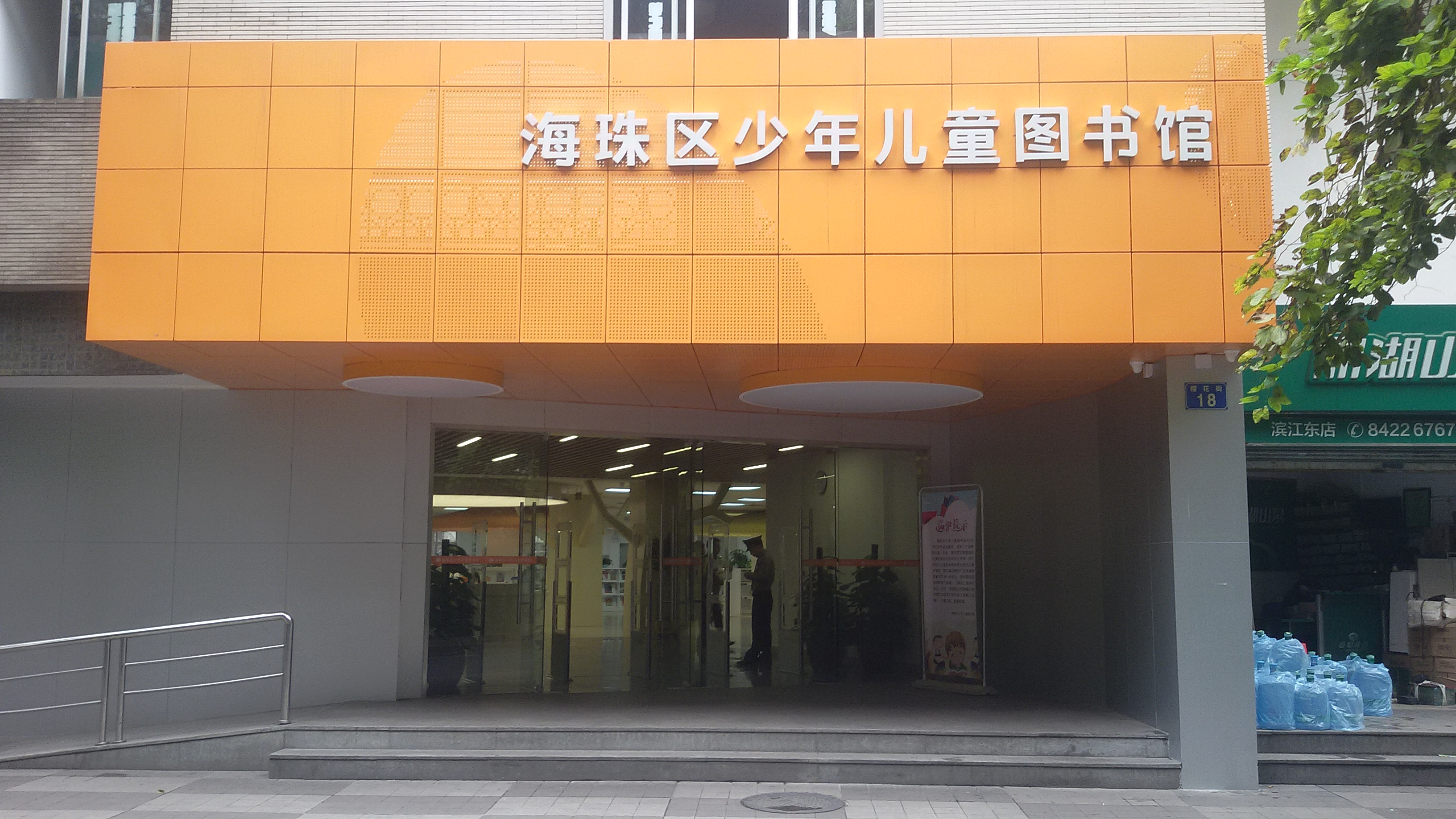 Haizhu Juveniles' & Children's Library 粵語: 海珠区少年儿童图书馆